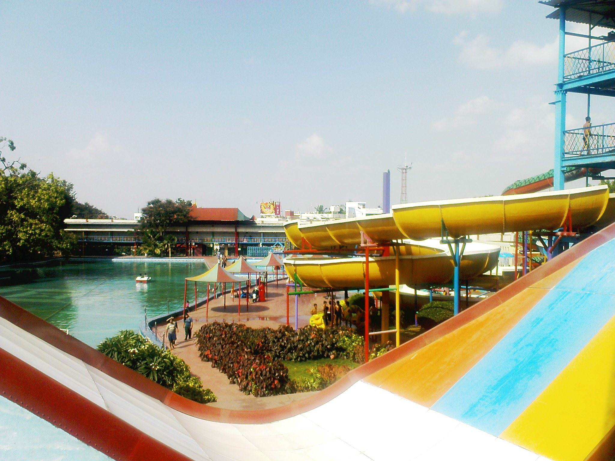 Fun world bangalore